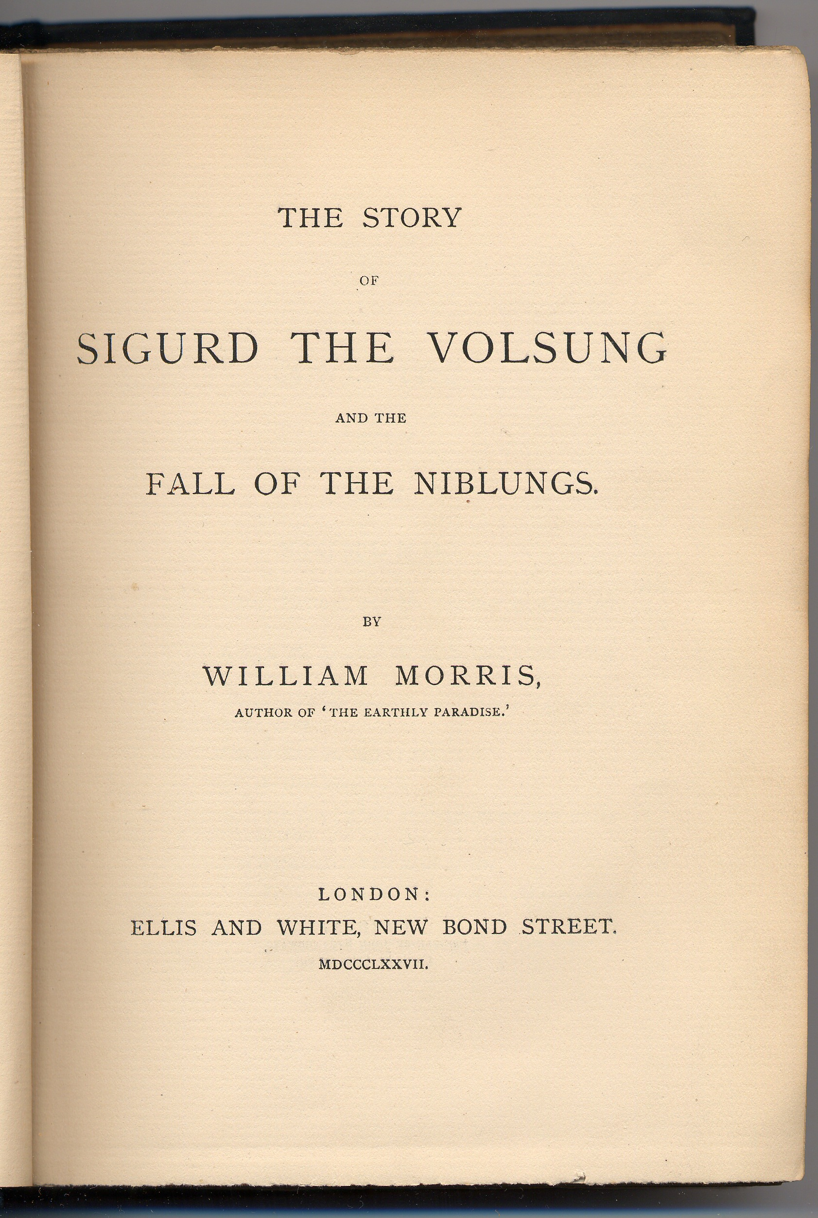 Title page of First Edition, dated MDCCCLXXVII (1877), actually 1876